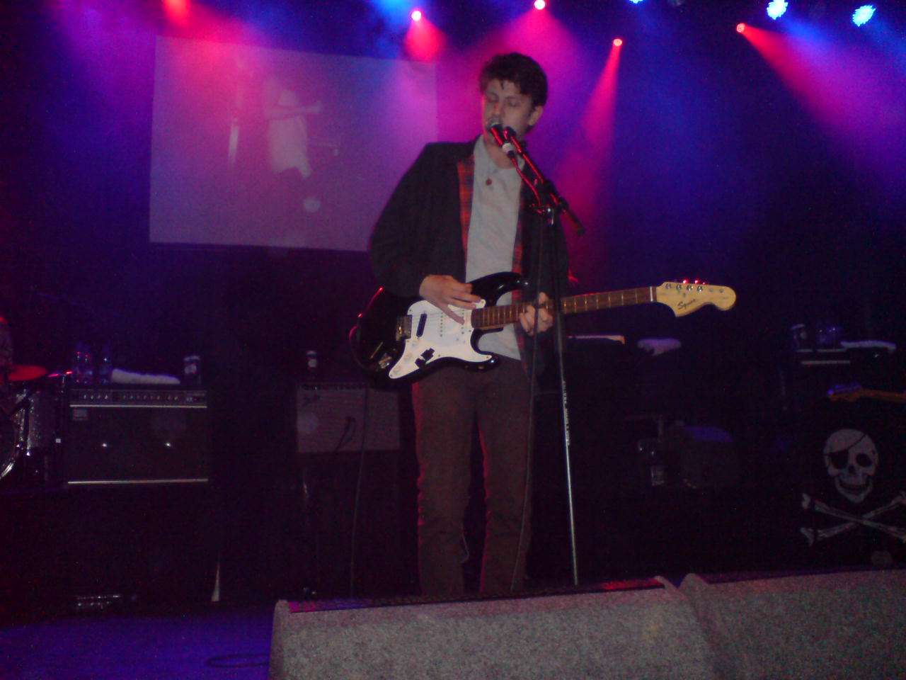 Jamie T Live @ ABC Glasgow. 27/04/07 Photograph taken by Wesley Shearer.